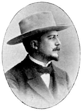 Image scanned from the book "Svenskt Porträttgalleri XX - Arkitekter, Bildhuggare, Målare m.fl. " ("Swedish Portrait Gallery XX - Architects, Sculptors, Painters, ") published 1901